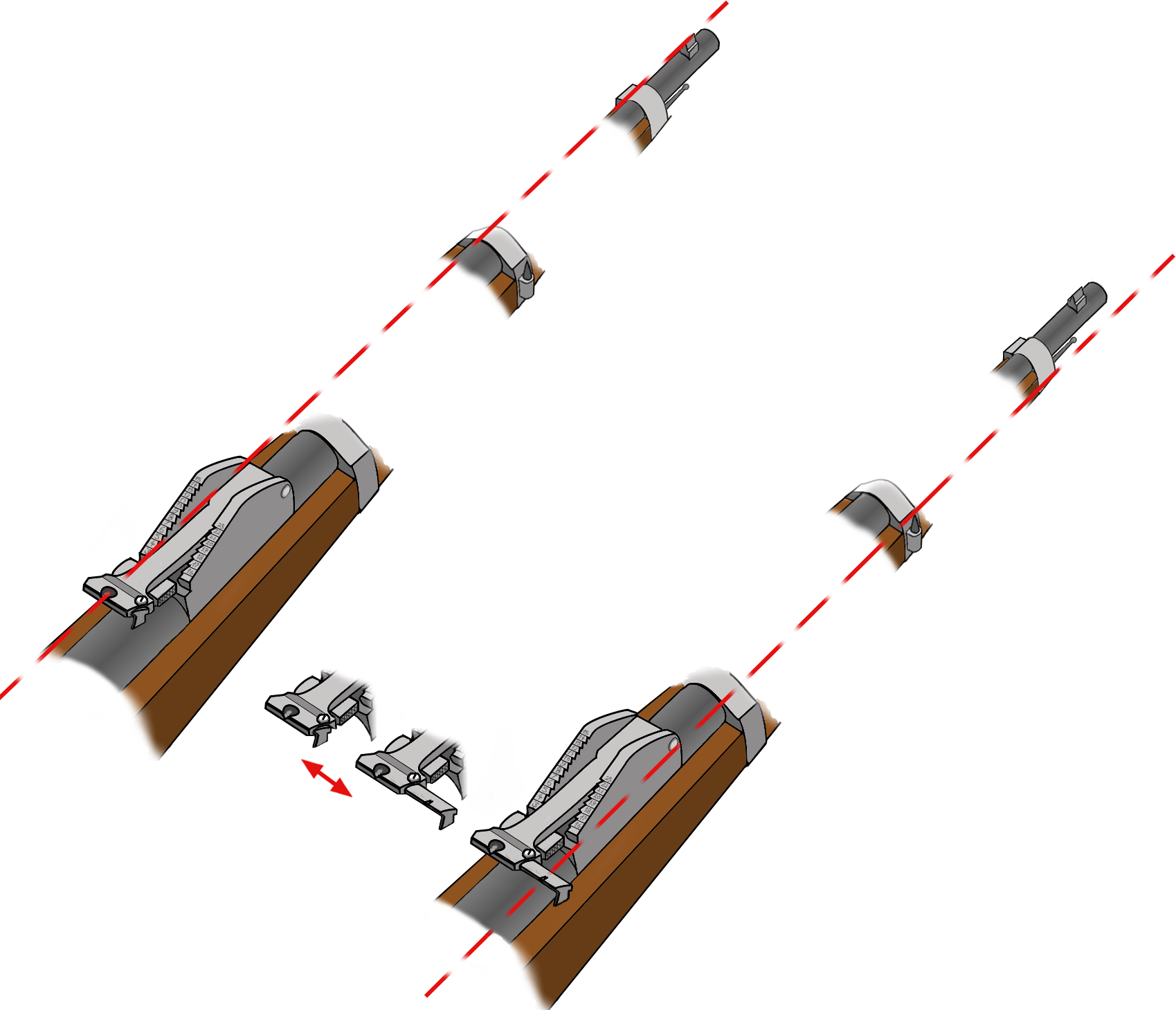 Austro-Hungarian Mannlicher M1886 rifle iron sight. Left: main sight scaled at a normal distance (300 to 1500 steps) Right: additional sight scaled at a long distance (1600 to 2300 steps)